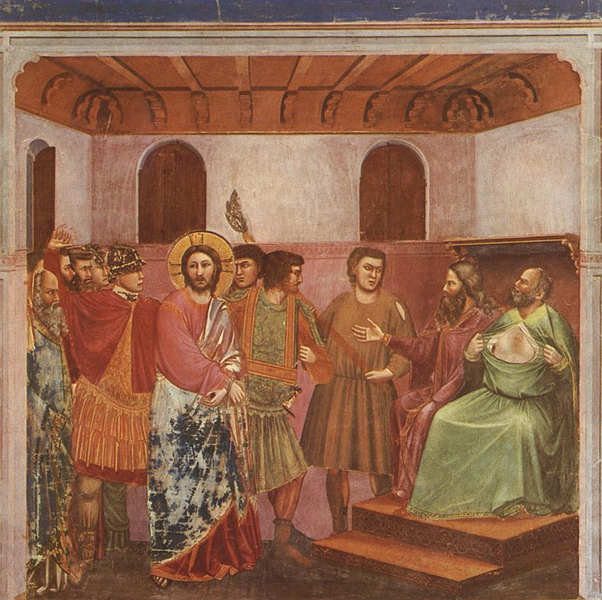 Caiaphas the High Priest, is depicted tearing his robe in grief at Jesus' blasphemy.Life of Christ